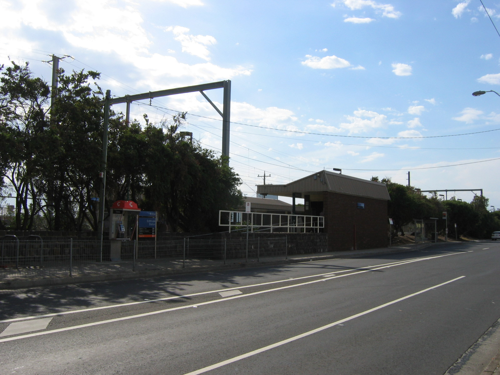 Edithvale station (Frankston line), Melbourne, Victoria.